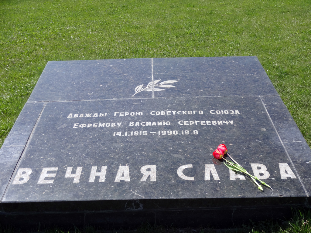 Memorial plate to Vasily Yefremov in Mamayev Kurgan